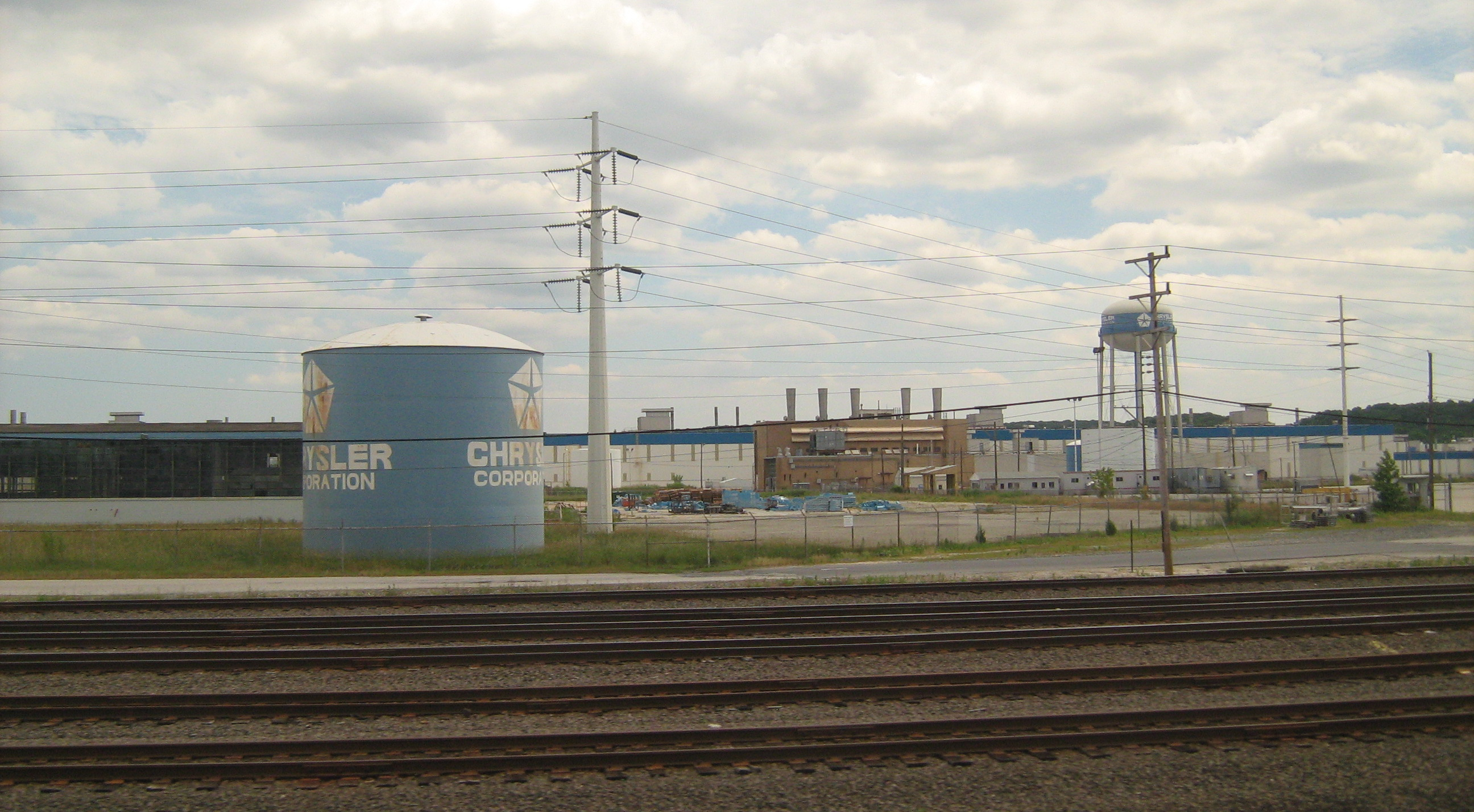 Chrysler Corporation's closed Newark Assembly Facility located in Delaware, as viewed from an Amtrak train.